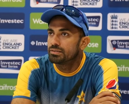 Wahab Riaz, Pakistani cricketer during a press conference in 2017.